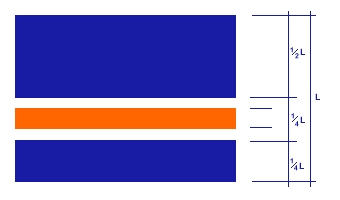 Flag of Proteus-Eretes